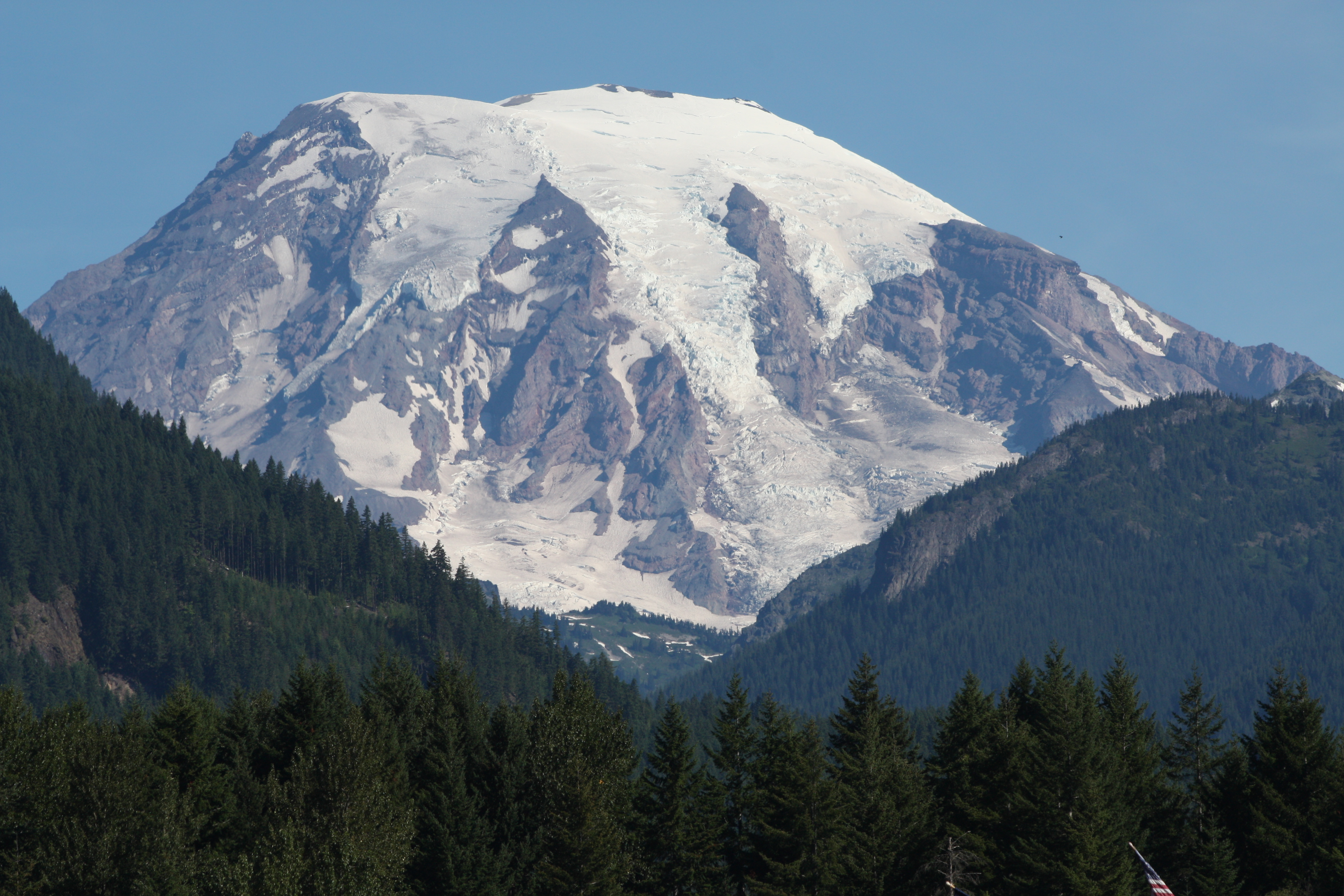 Nisqually Glacier (center, descending to the right from the summit icecap; Kautz Headwall (left); Kautz Glacier; Wilson Headwall (just left of Nisqually Glacier); Gibraltar Rock (right of Nisqually Ice Cliff); Butter Creek Valley (center; middle distance)